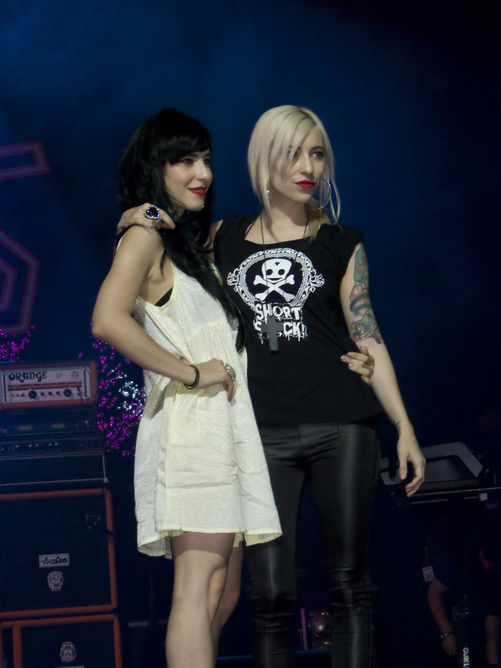 original description: Lisa and Jess up close and personal at the V experience